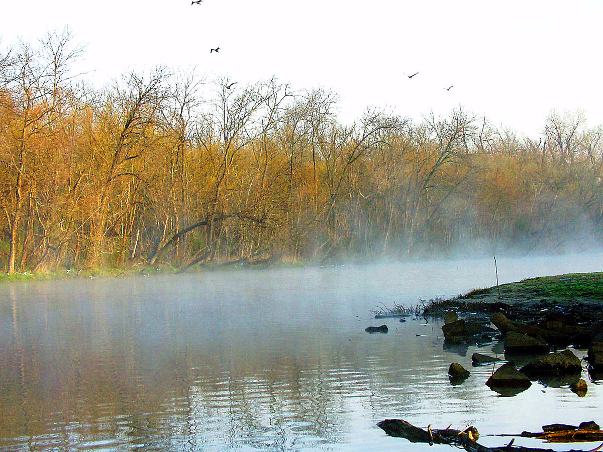 Morning mist on White Rock Creek, Dallas 2005Morning Mist